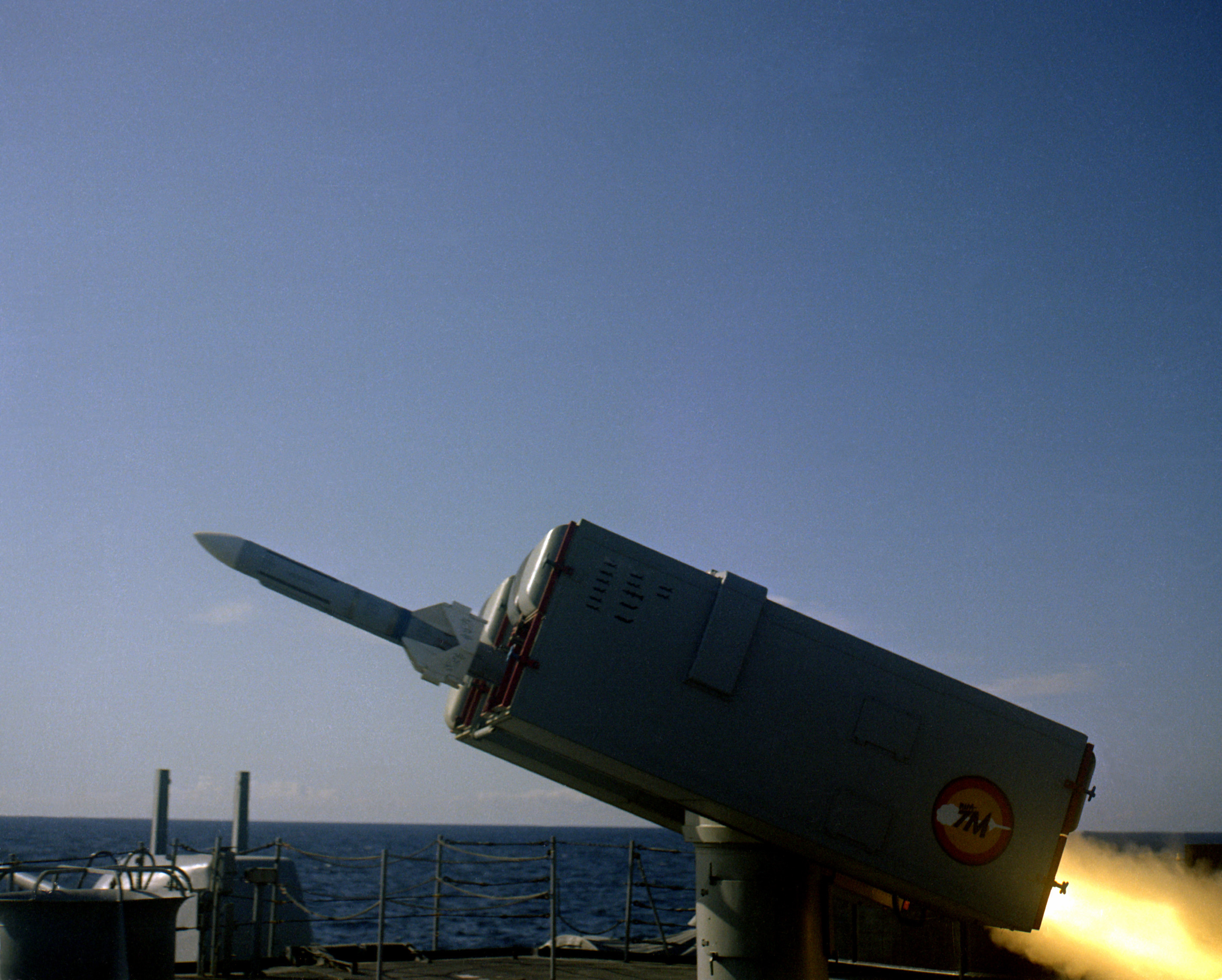 An RIM-7H Sea Sparrow missile emerges from its launch tube aboard the Spruance-class destroyer USS Hewitt (DD-966) on 16 January 1983. The missile was being test-fired at a drone flying over the Pacific Missile Test Center Range.